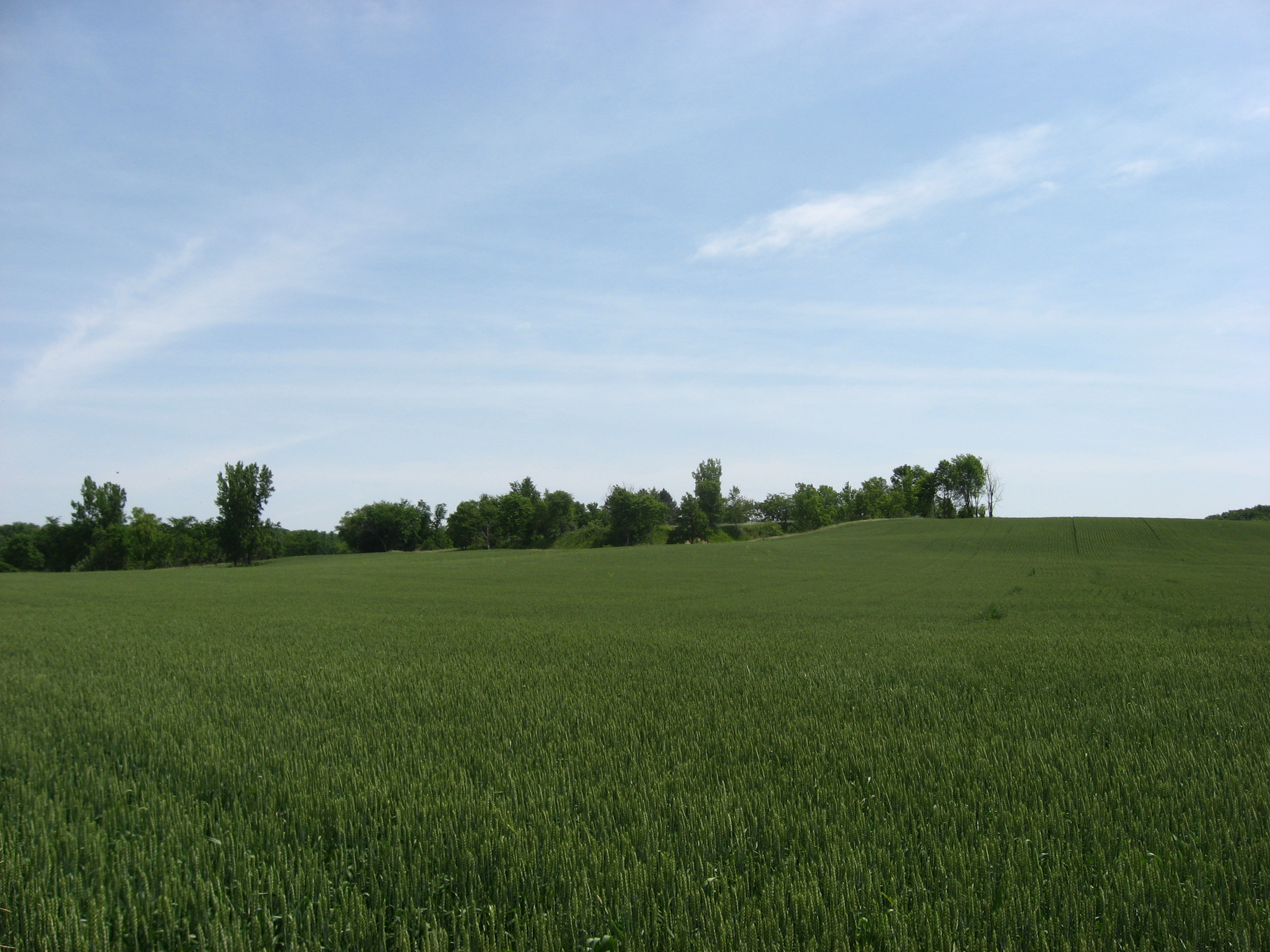 Western side of the Zimmerman Kame, located on the eastern side of Township Road 39 northeast of Roundhead in far western McDonald Township, Hardin County, Ohio, United States. A glacial kame that was quarried until the 1970s, it was a burial site for ancient Native Americans and is listed on the National Register of Historic Places.